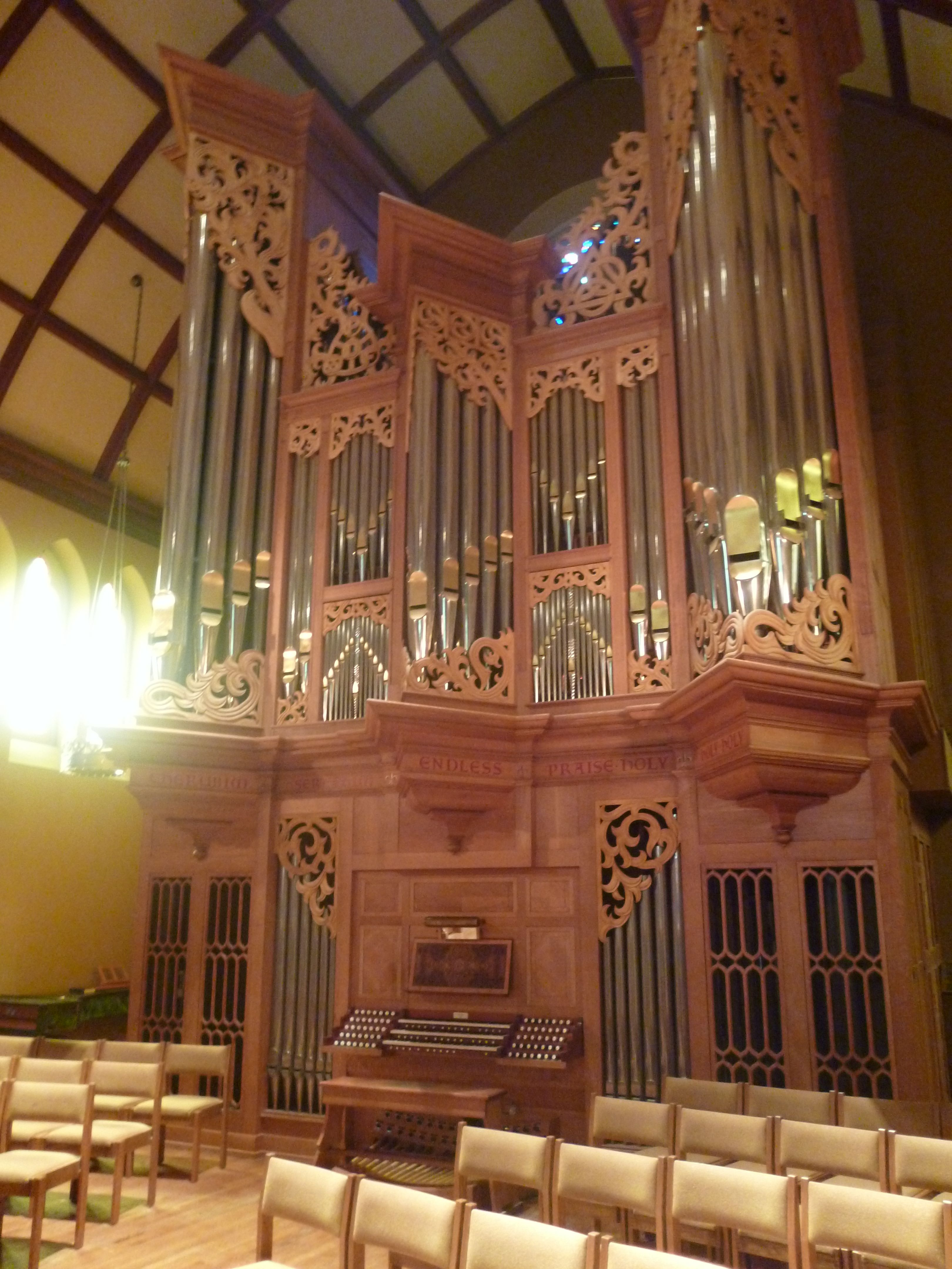 Pipe organ built in 1983